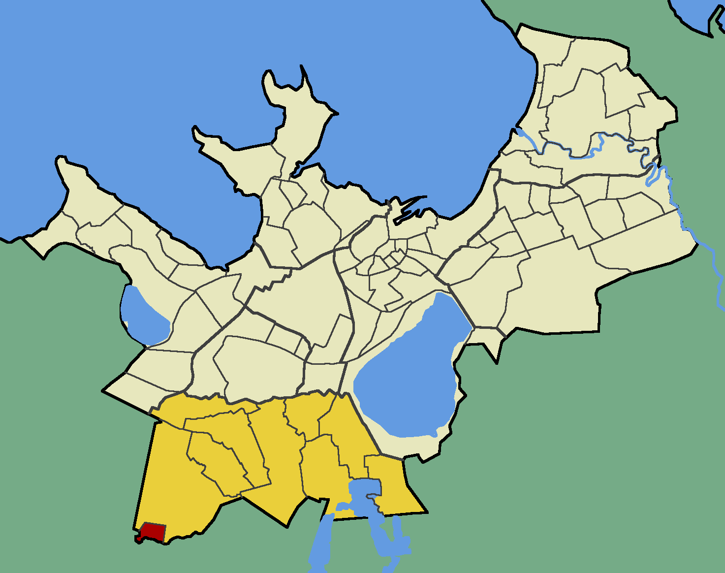 Map of Tallinn (Estonia) with borders of the quarters, Nõmme district and Laagri quarter emphasised